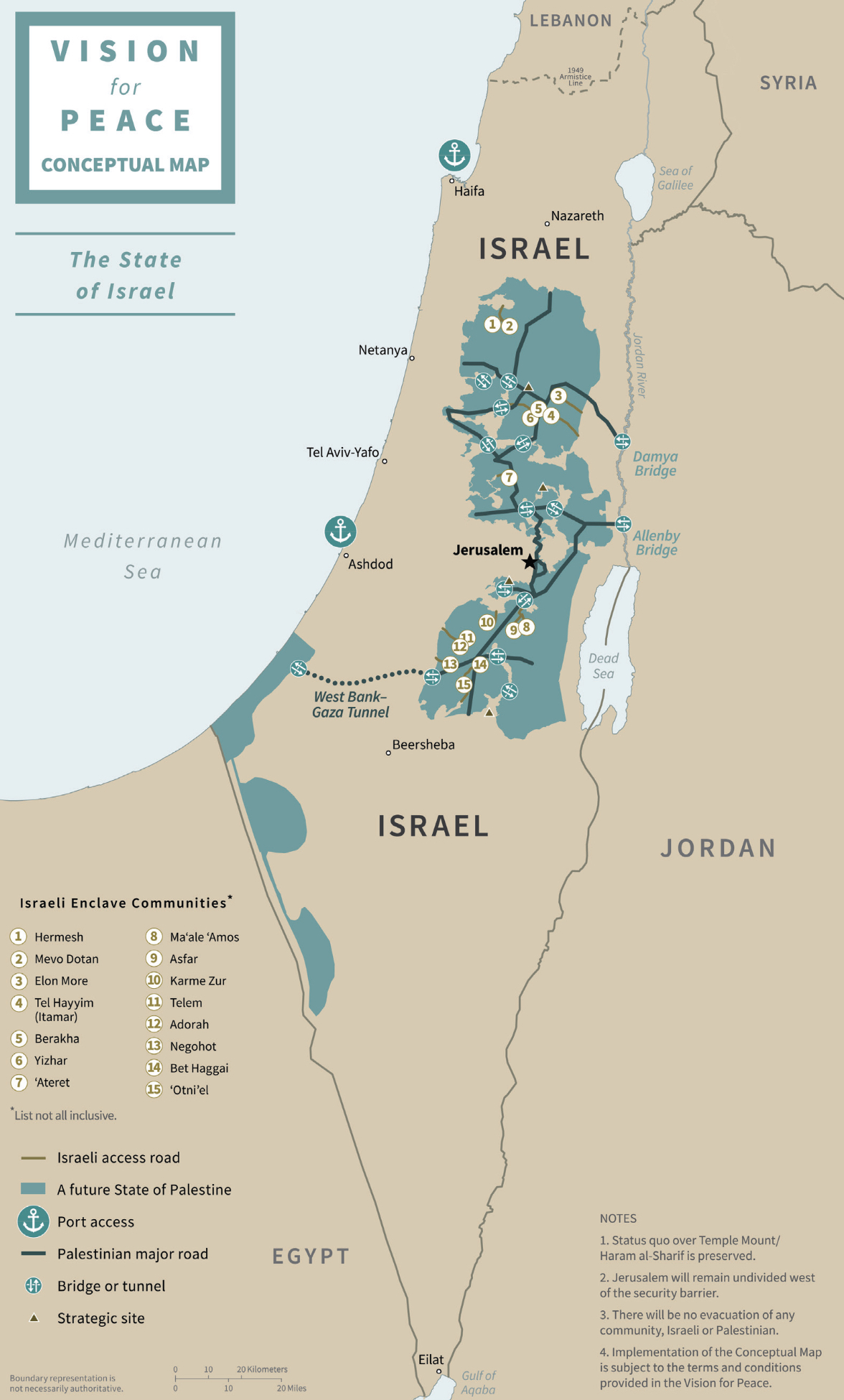 Trump Peace Plan (cropped)